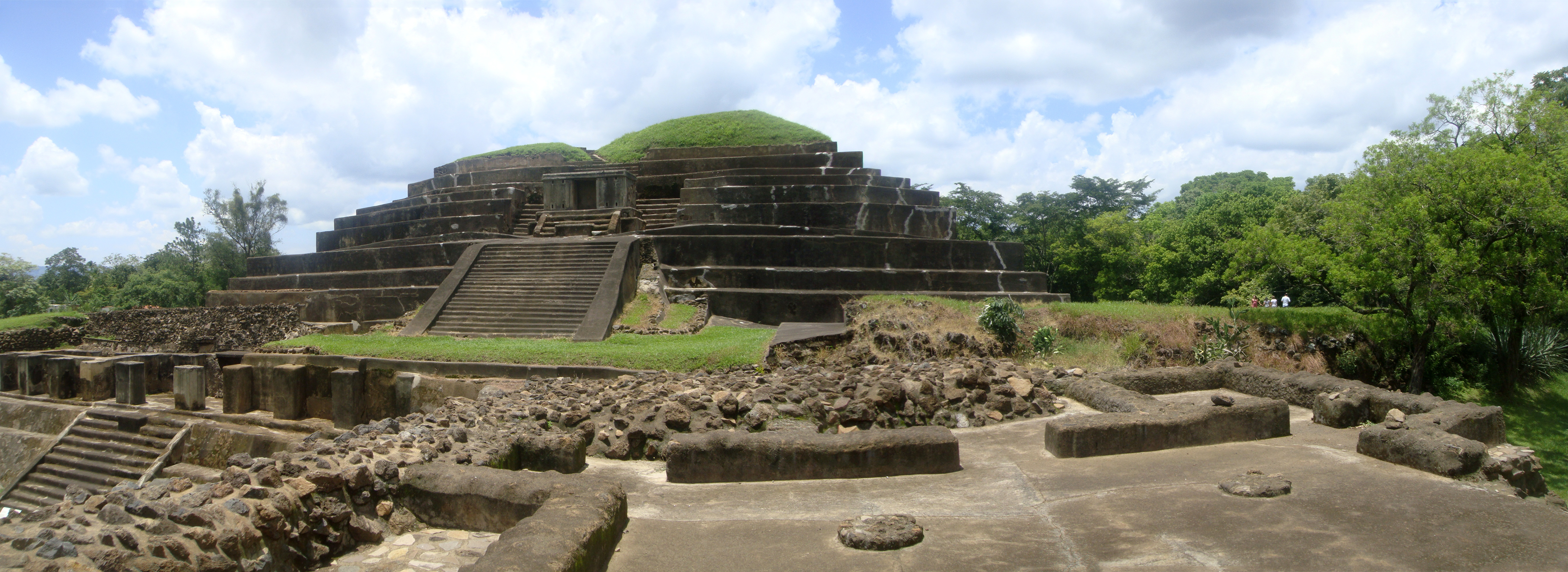 Western side of the Tazumal main pyramid (structure B1-1), from the top of structure B1-2. Chalchuapa, El Salvador